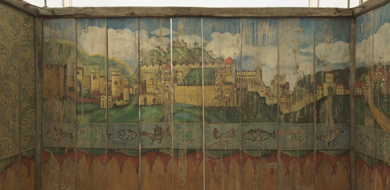 Painted sukkah with a view of Jerusalem, late 19th century, Austria or South Germany - Musée d'Art et d'Histoire du Judaïsme, 71, rue du Temple, 75003 Paris